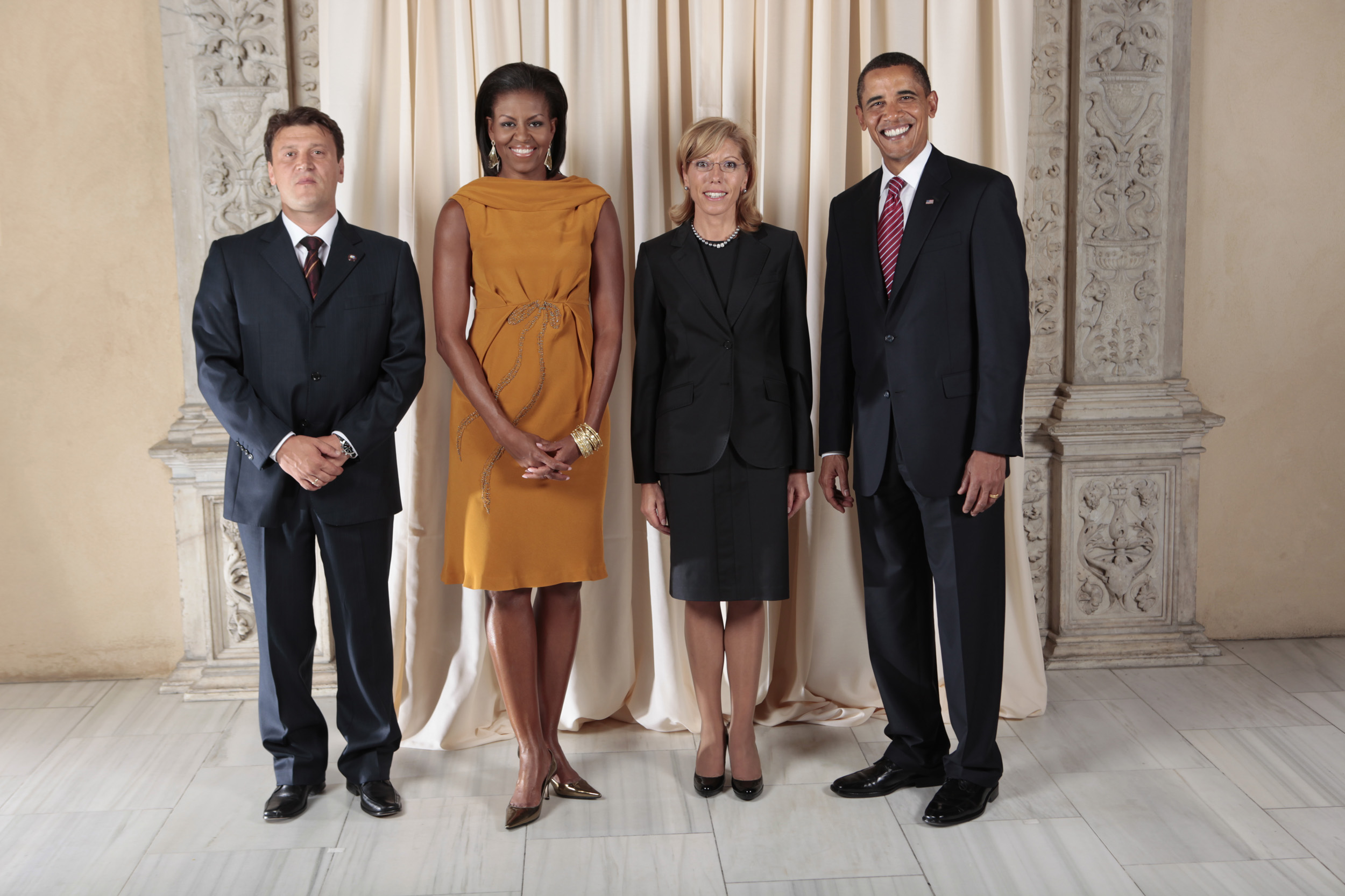 President Barack Obama and First Lady Michelle Obama pose for a photo during a reception at the Metropolitan Museum in New York with Rumiana Jeleva (center), Bulgarian minister of foreign affairs, and Mr. Krasimir Zhelev.